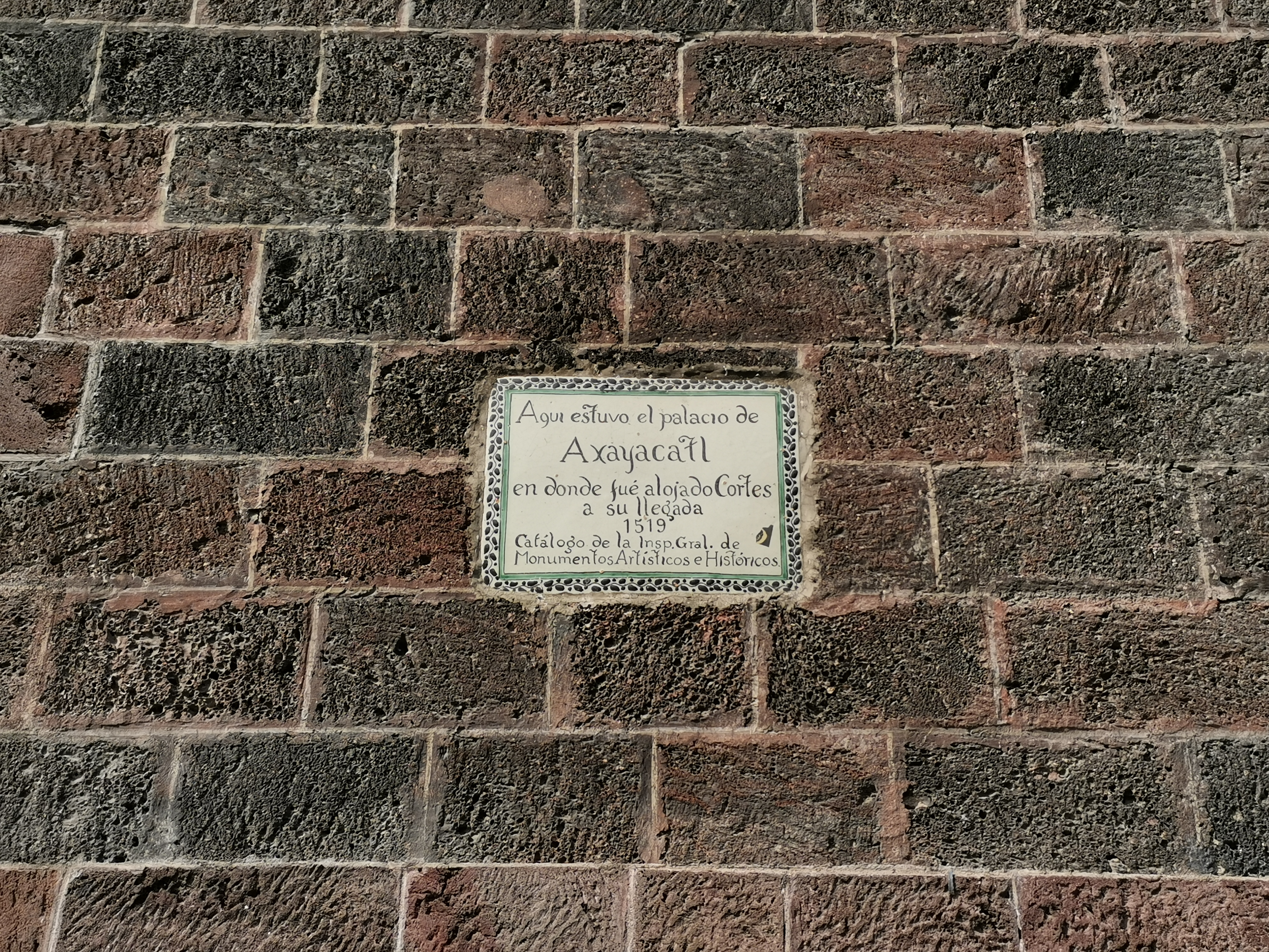 Plaque indicating the site of the Palace of Axayacatl, where Hernan Cortes and his army were lodged in 1519.